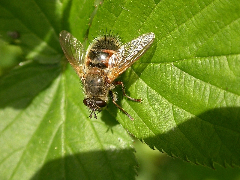 Tachinidae species, Mörfelden, Hesse, Germany